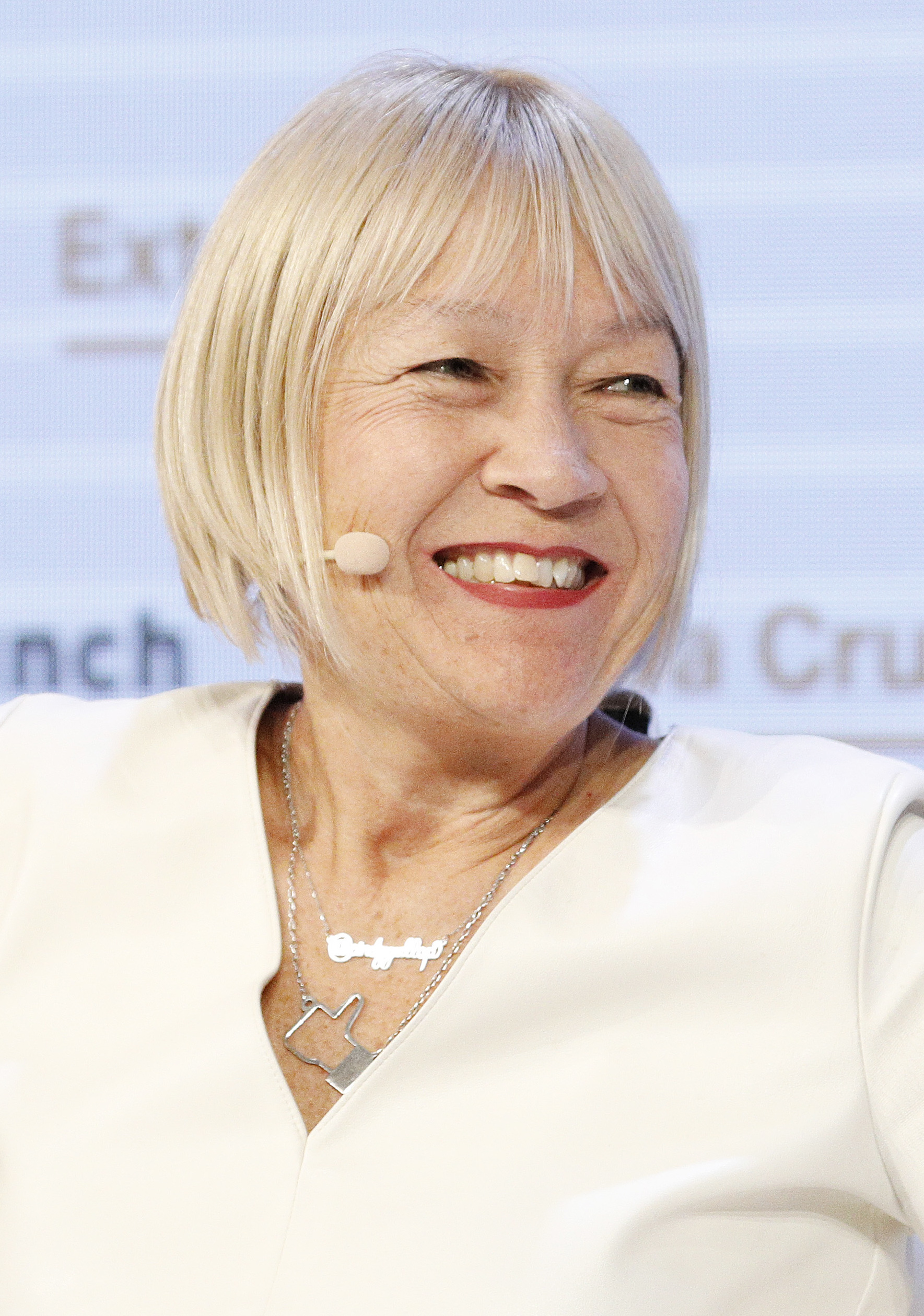 SAN FRANCISCO, CALIFORNIA - OCTOBER 03: MakeLoveNotPorn Founder & CEO Cindy Gallop speaks onstage during TechCrunch Disrupt San Francisco 2019 at Moscone Convention Center on October 03, 2019 in San Francisco, California. (Photo by Kimberly White/Getty Images for TechCrunch)